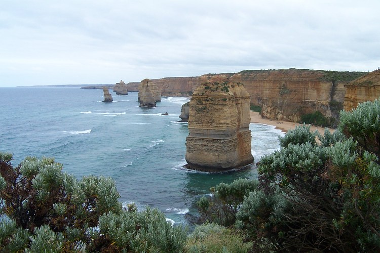 Twelve Apostles on the Great Ocean Road, Victoria, Australia (looking west)